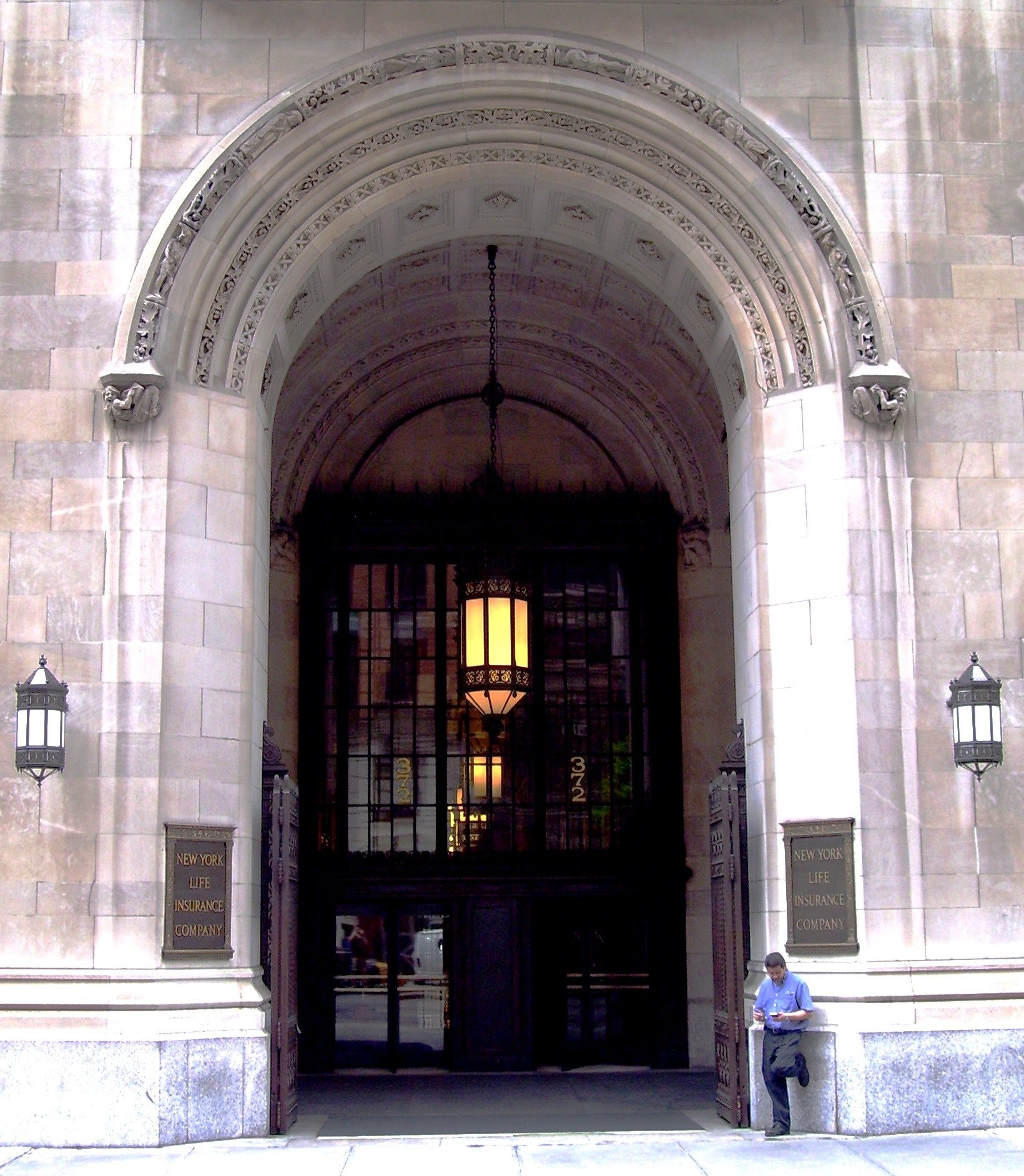 An archway entrance to the New York Life Building on Park Avenue South.